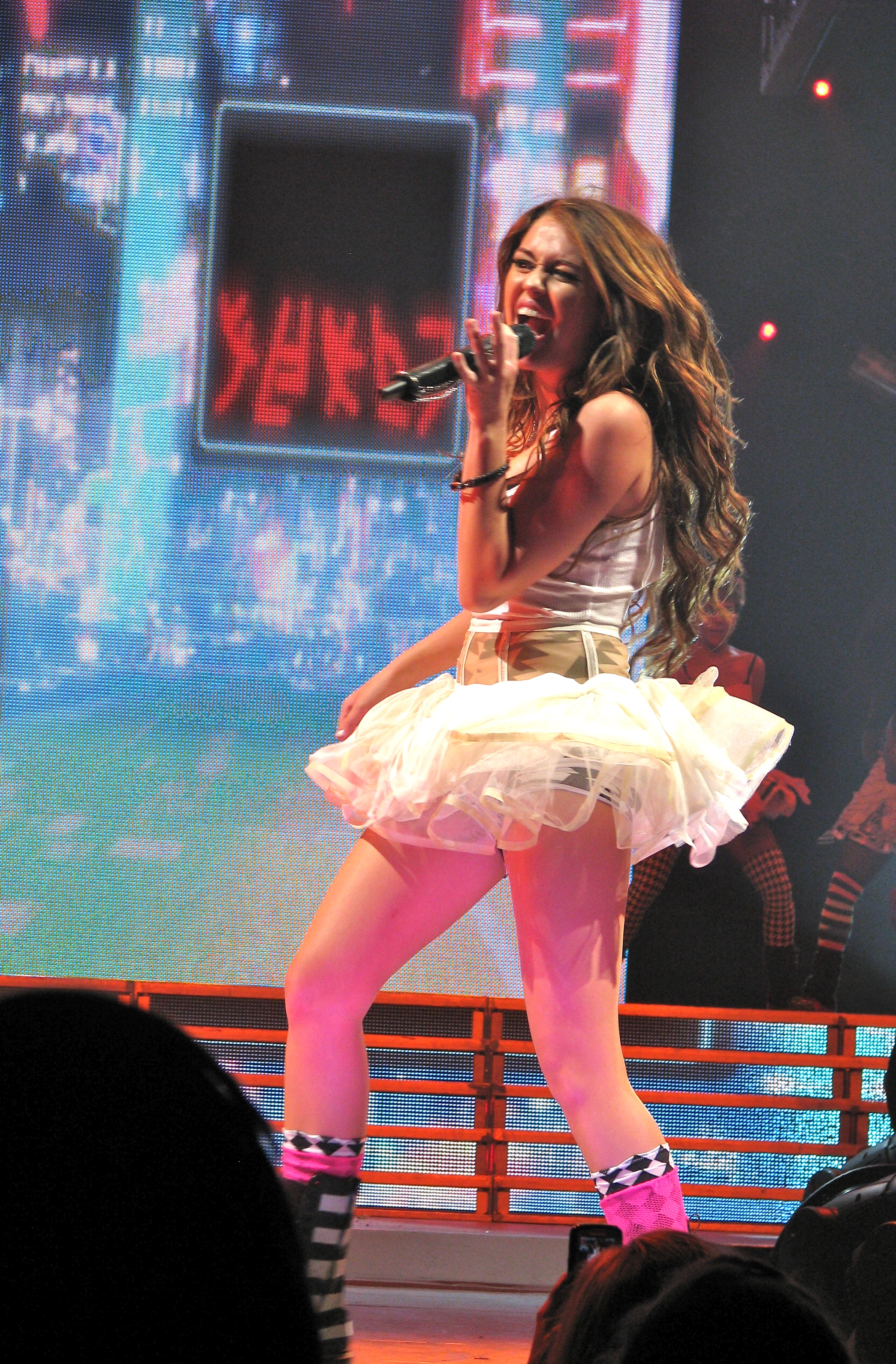 A teen singing.